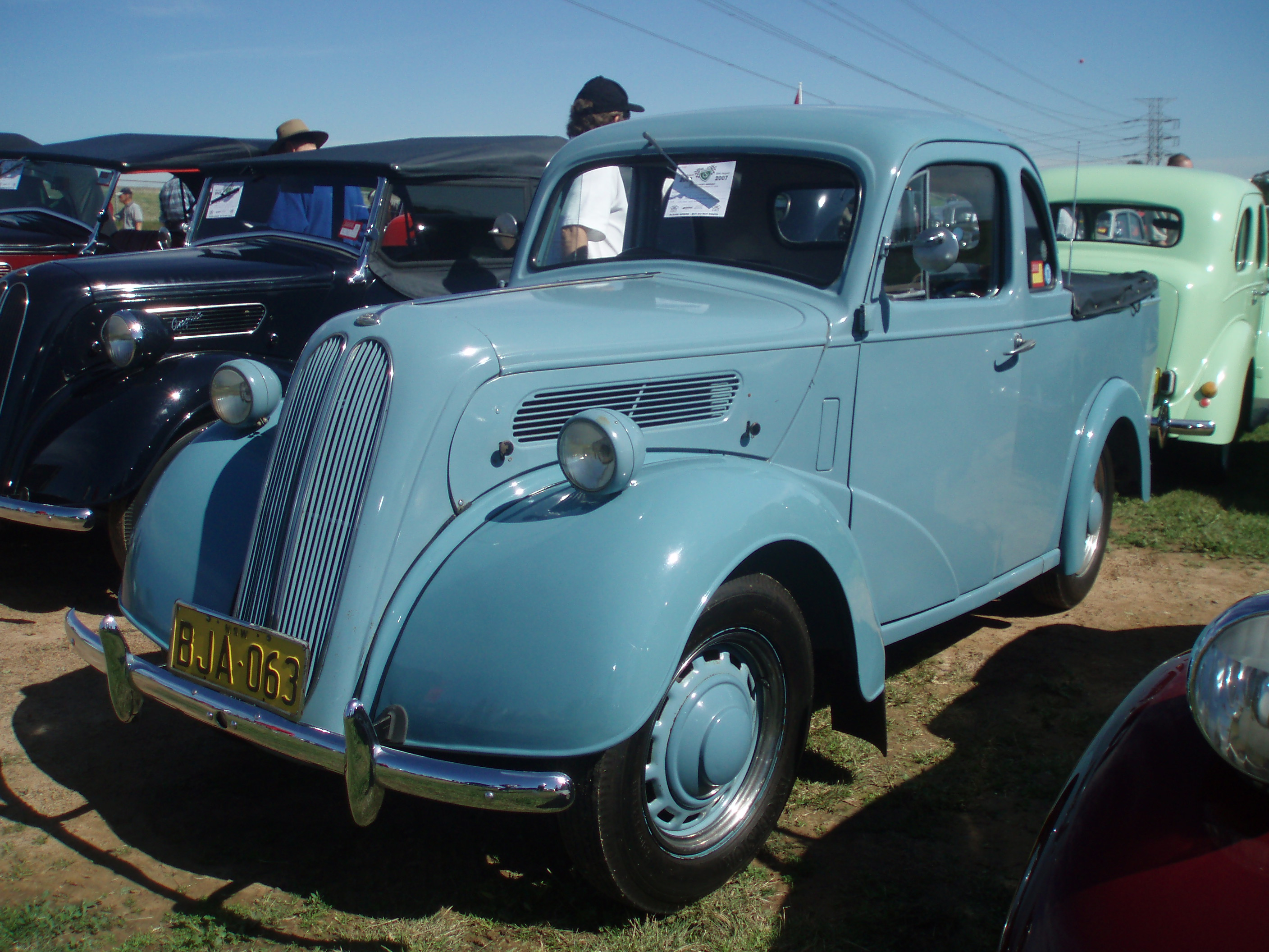 1954 Ford Popular 103E coupe ute. Taken at Shannon's Eastern Creek Classic 2007, held at Eastern Creek Raceway Sydney.